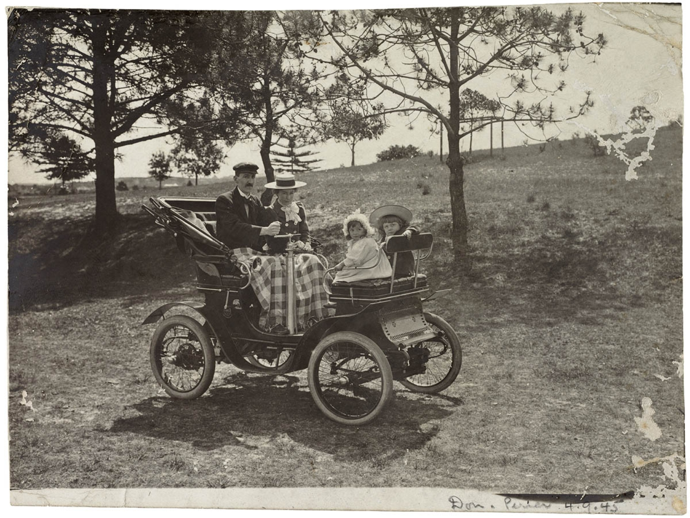 Perier family in de Dion "Vis-à-vis" voiturette, c.1903 Format: 1 silver gelatin photoprint ; 11.7 x 15.5 cm. Notes: First car imported into New South Wales, c.1903 From the collections of the Mitchell Library, State Library of New South Wales Information about photographic collections of the State Library of New South Wales .au/search/SimpleSearch.aspx Persistent url: .au/item/itemDetailPaged.aspx?itemID=442472